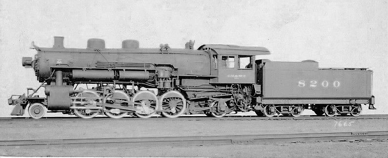 Baldwin Builders' portrait of the Milwaukee Road's 2-8-2 locomotive #8200.